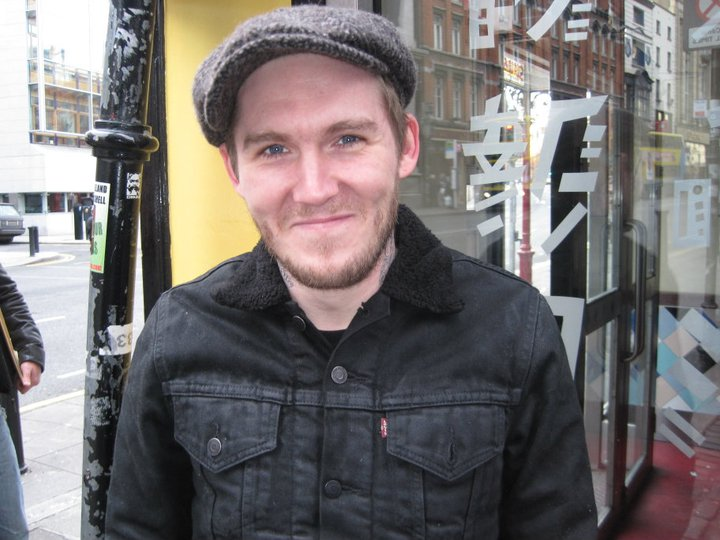 Brian Fallon in Dublin